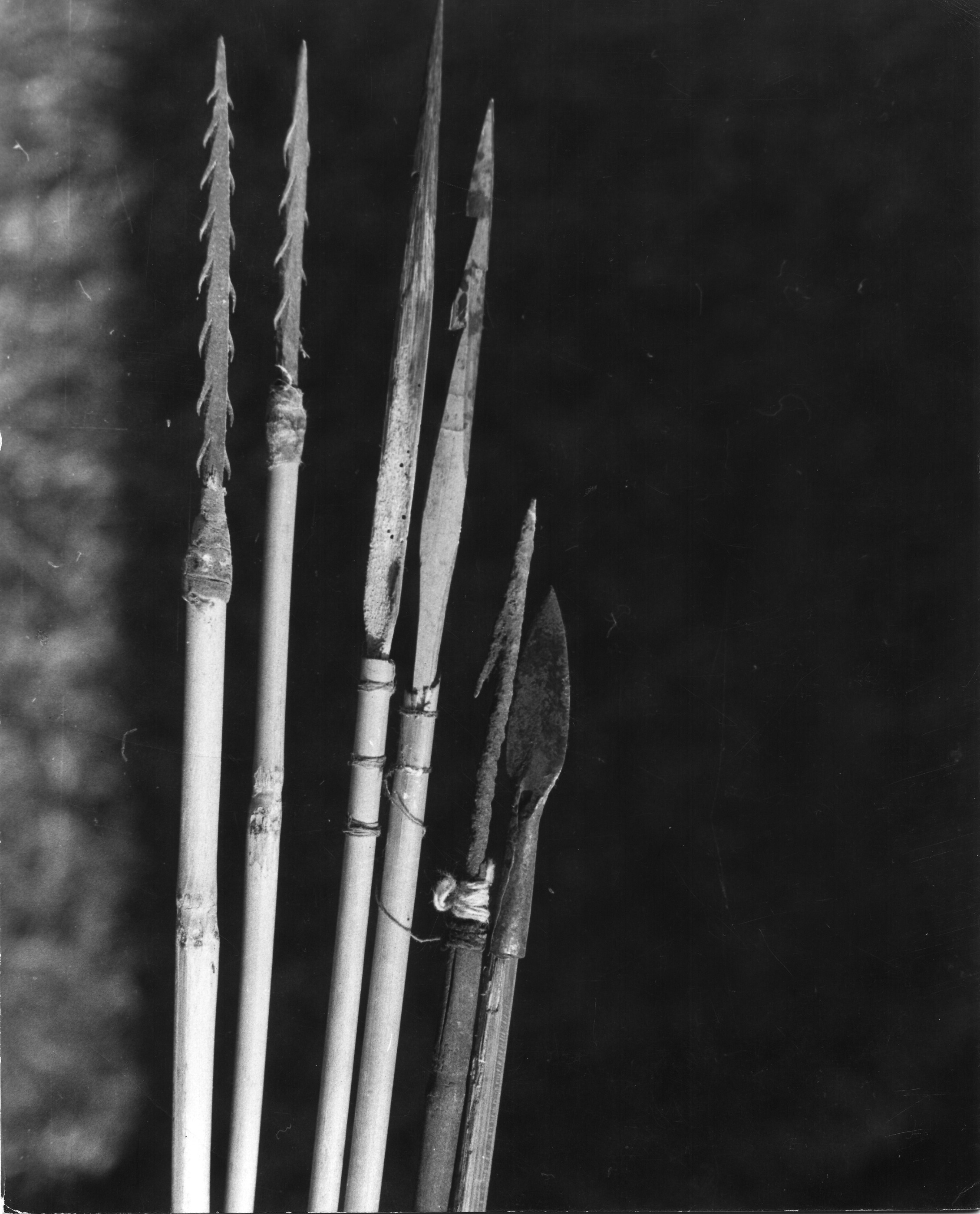 Photo taken at the Sierra Leone Museum in Freetown in 1968.